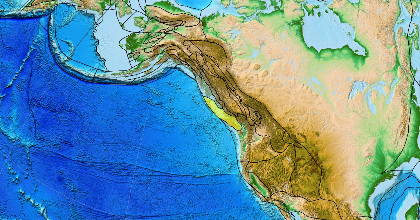 Wrangellia is an arc terrane located on the North American westcoast, stretching from Vancouver Island to central Alaska. Highlighted here is Southern Wrangellia, also known as Wrangell.